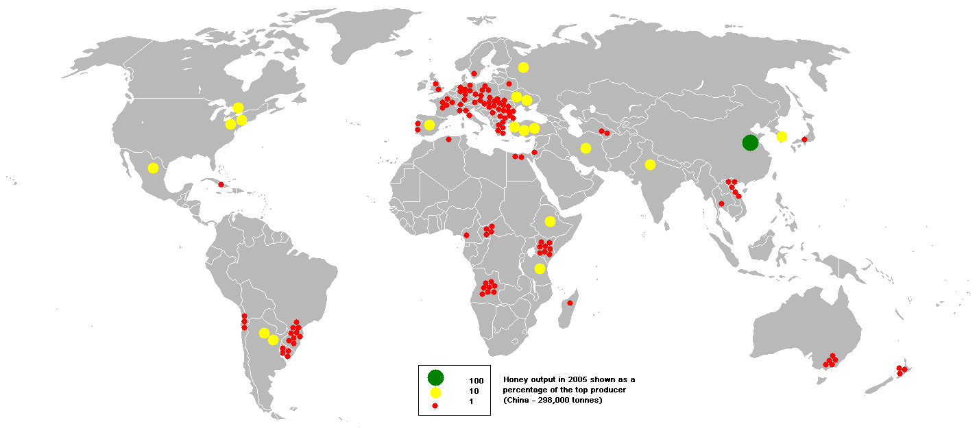 This bubble map shows the global distribution of (natural) honey output in 2005 as a percentage of the top producer (China - 298,000 tons). This map is consistent with incomplete set of data too as long as the top producer is known. It resolves the accessibility issues faced by colour-coded maps that may not be properly rendered in old computer screens. Data was extracted on 9th June 2007 from Based on :Image:BlankMap-World.png